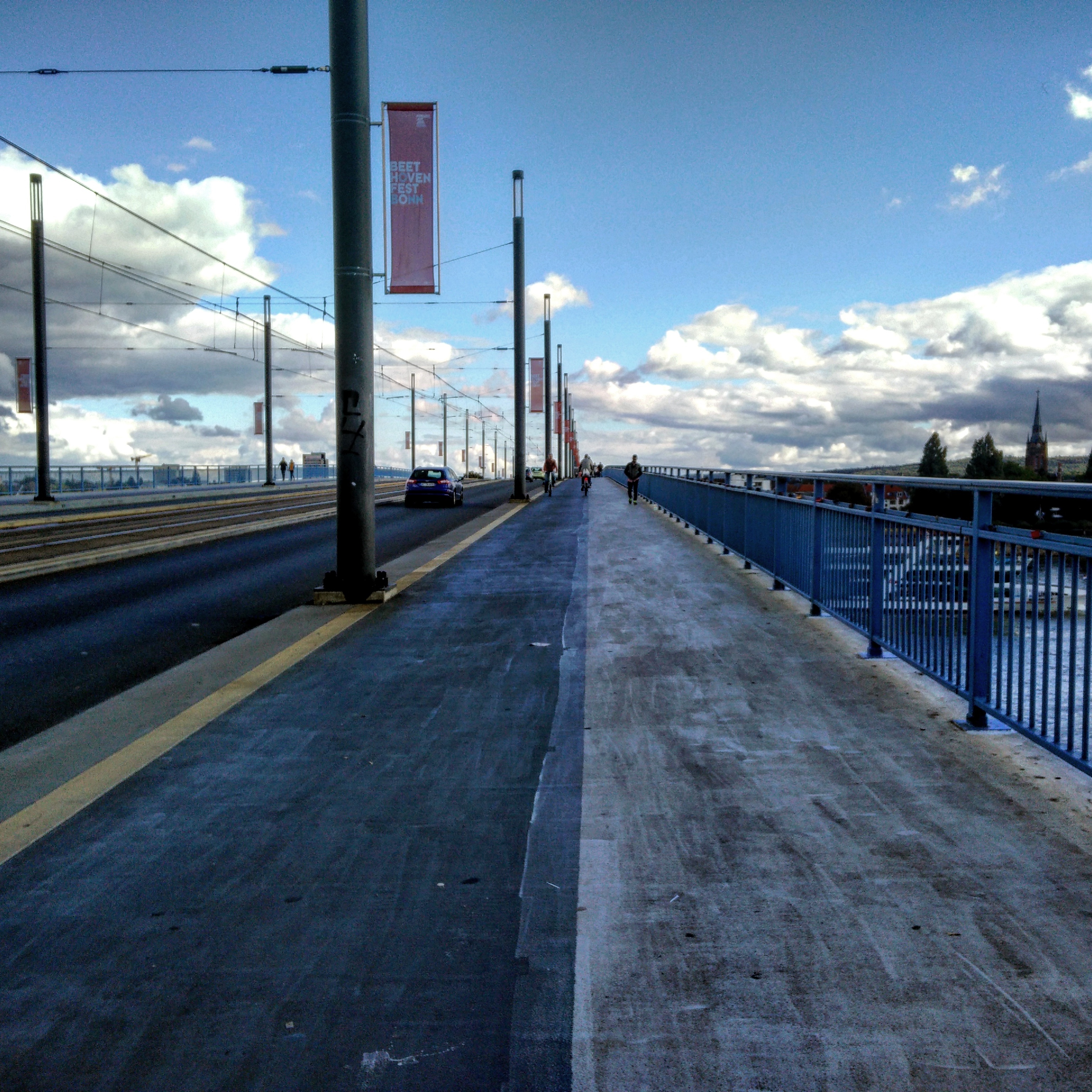 The Kennedybrücke, Bonn.